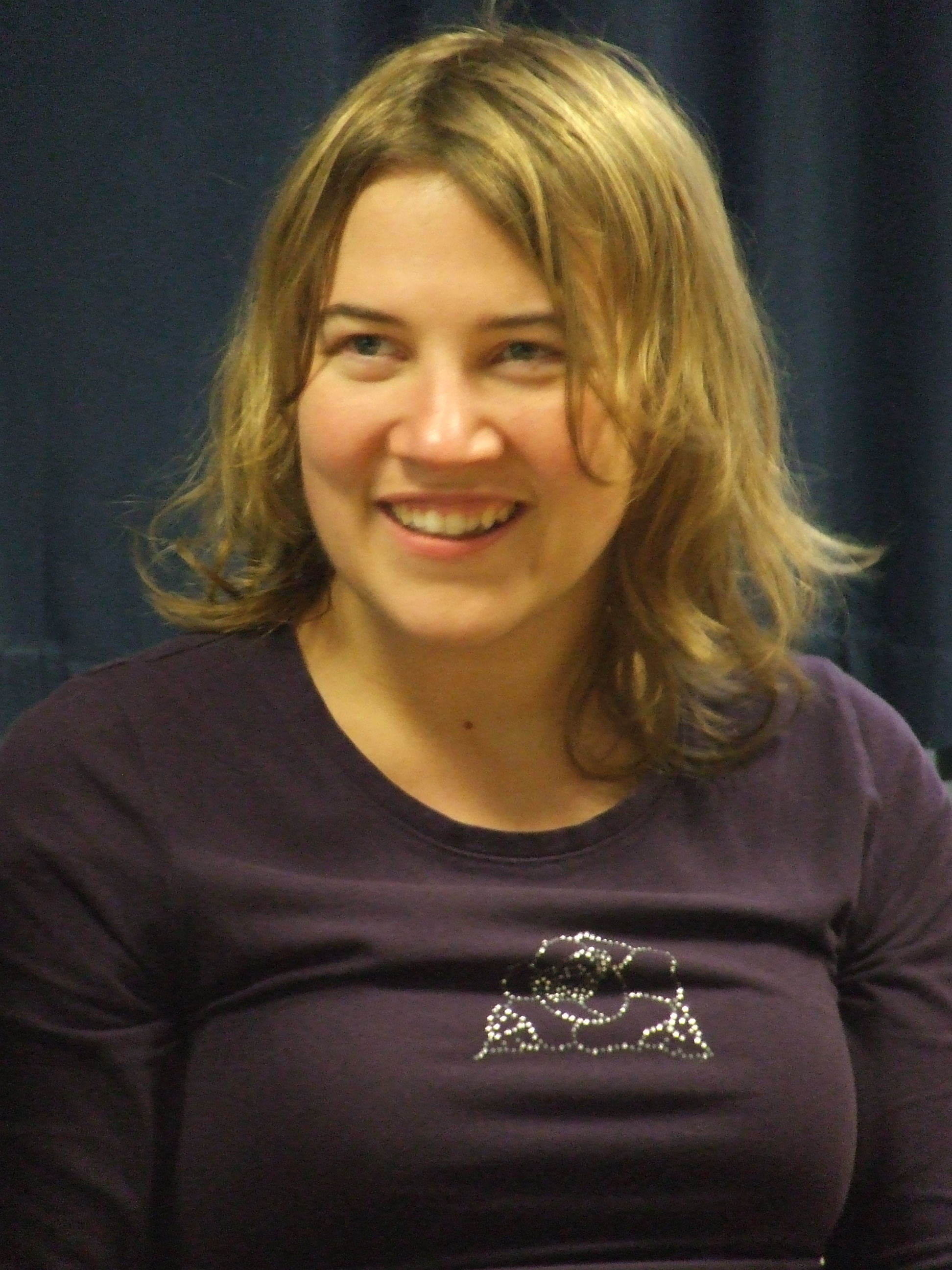 Veronika Poór, a Hungarian female Esperantist